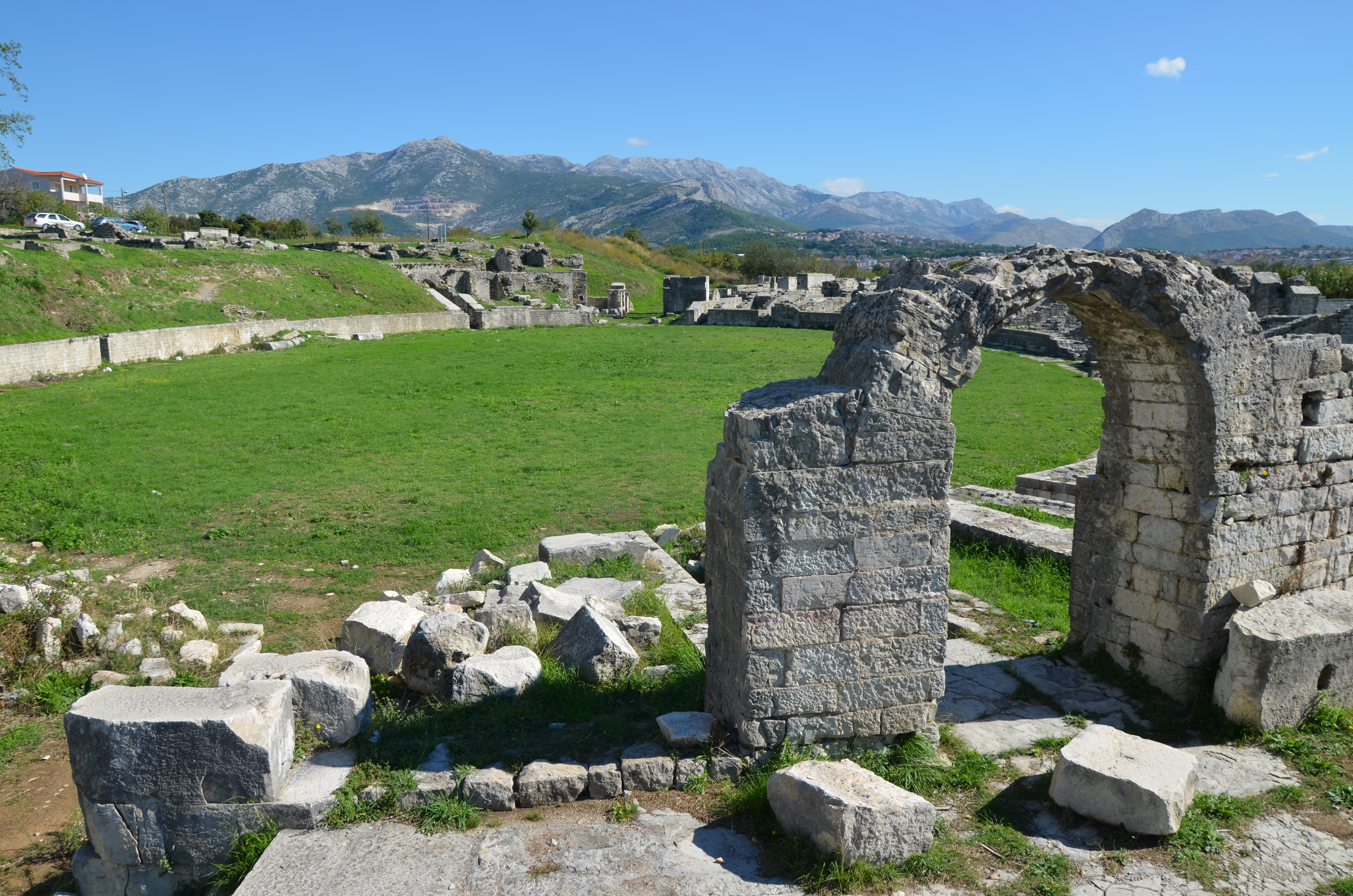 The Amphitheatre, erected in the latter half of the 2nd century AD, the fights in the arena could be watched by some 17,000 spectators, Salona